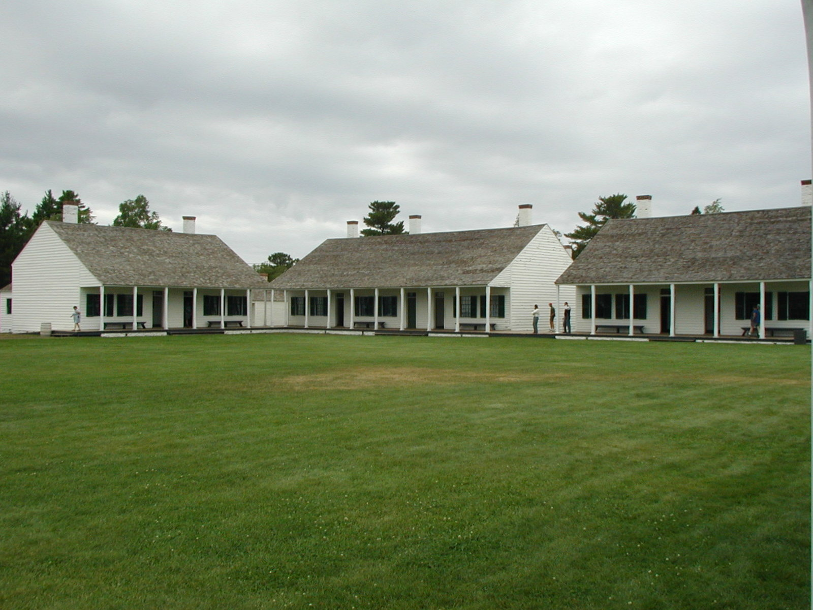 According to signage at Fort Wilkins Historic State Park, these three buildings are the Officer Quarters.